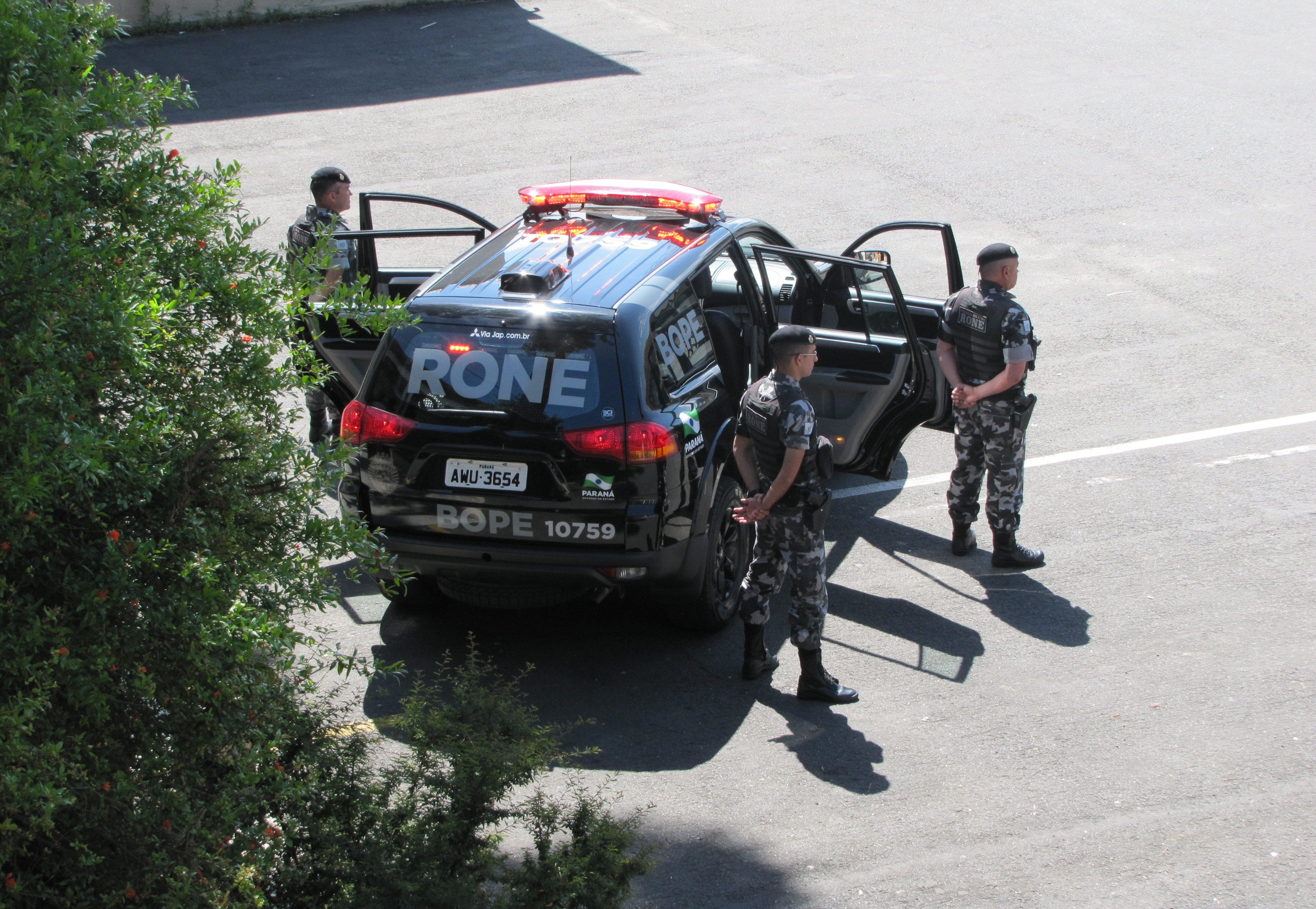 Vehicle of the BOPE (Special Operations Battalion) of the PMPR (Military Police of Parana), Brazil.